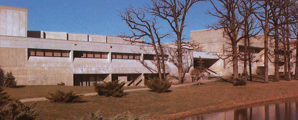 Maine North High School when it was used as a school.